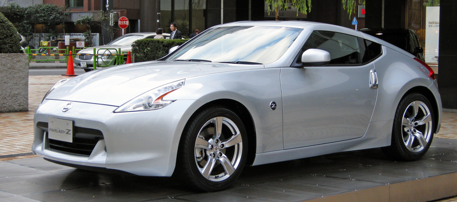 NISSAN FAIRLADY Z Z34/Z34 Version T